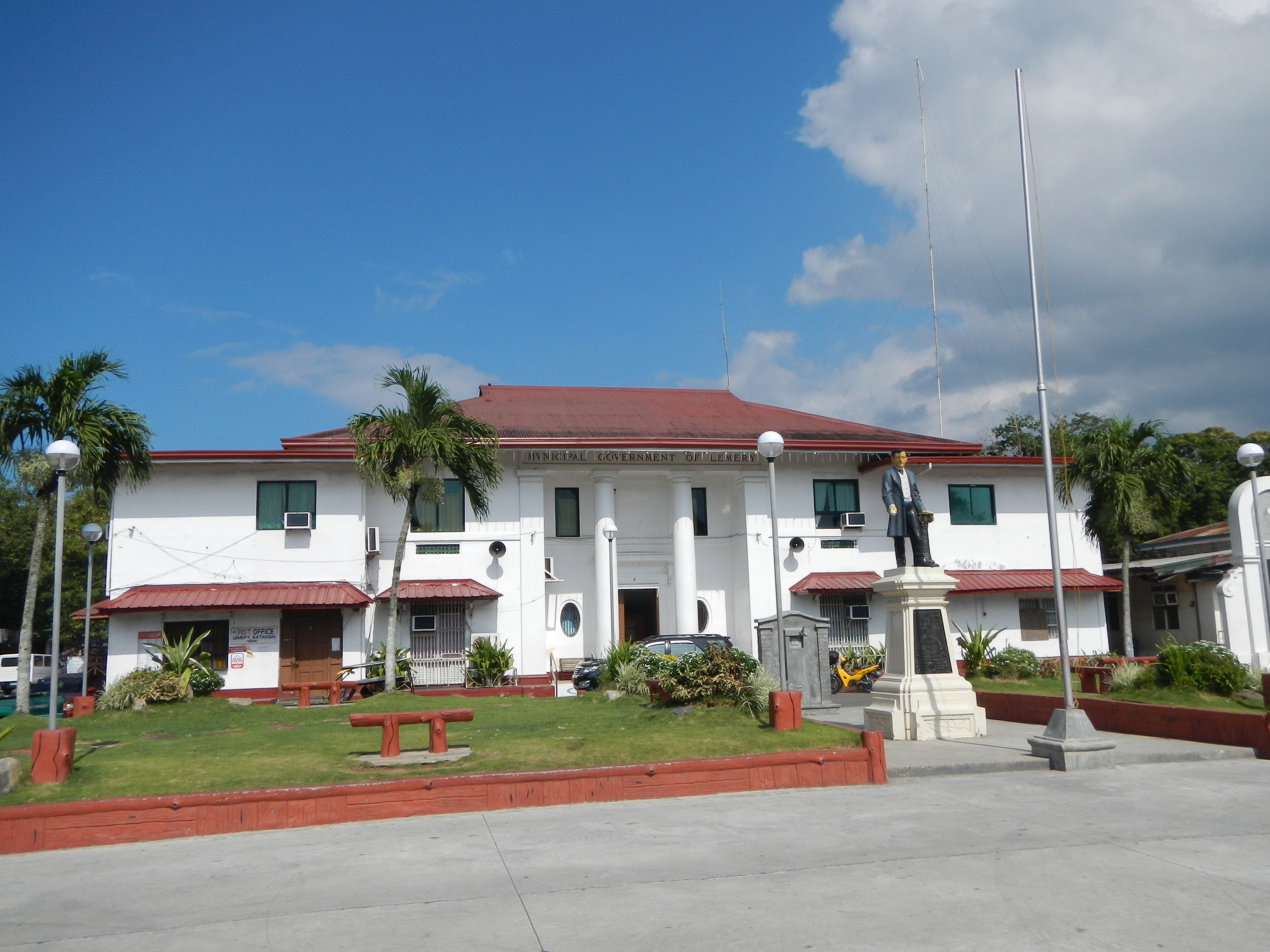 Upload Wizard photos of - the Town Proper, Centro, downtown and junction, crossing and Welcome Arch of - of Lemery, Batangas, downtown, crossing - downtown - Lemery, Batangas[1] near the 8-kilometer Pansipit River [2] (a short river located in the Batangas province of the Philippines, the sole drainage outlet of Taal Lake, which empties to Balayan Bay. The river stretches about 9 kilometres (5.6 mi) passing along the towns of Agoncillo, Lemery, San Nicolas and Taal serving as border between the communities. It has a very narrow entrance from Taal Lake [3] [4] 13° 53' 48.28" N 120° 54' 46.32" E[5] [6]Coordinates: 13°52'40"N 120°55'2"E [7]13° 55' 37.15" N 120° 56' 46.21" E [8] Summer heat arrives in Lemery, Batangas [9] Batangas tilapia breeders fight for survival) and the - Lemery Municipal Hall[10] Coordinates: 13°53'0"N 120°54'50"E St. Mary's Educational Institute [11] Coordinates: 13°52'59"N 120°54'47"E Saint Roch Parish Church of Lemery [12] Vicariate II – St. John Maria Vianney - belongs to the [13] Roman Catholic Archdiocese of Lipa.